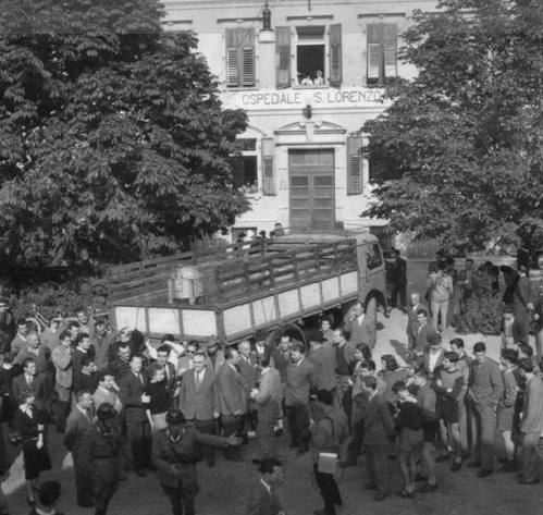 Una folla accoglie l'arrivo della sorgente al Cobalto-60 davanti all'ospedale S. Lorenzo; sono presenti, per l'occasione, gli amministratori e le autorità politiche locali e provinciali, i medici, il personale dell'ospedale, i cittadini di Borgo.